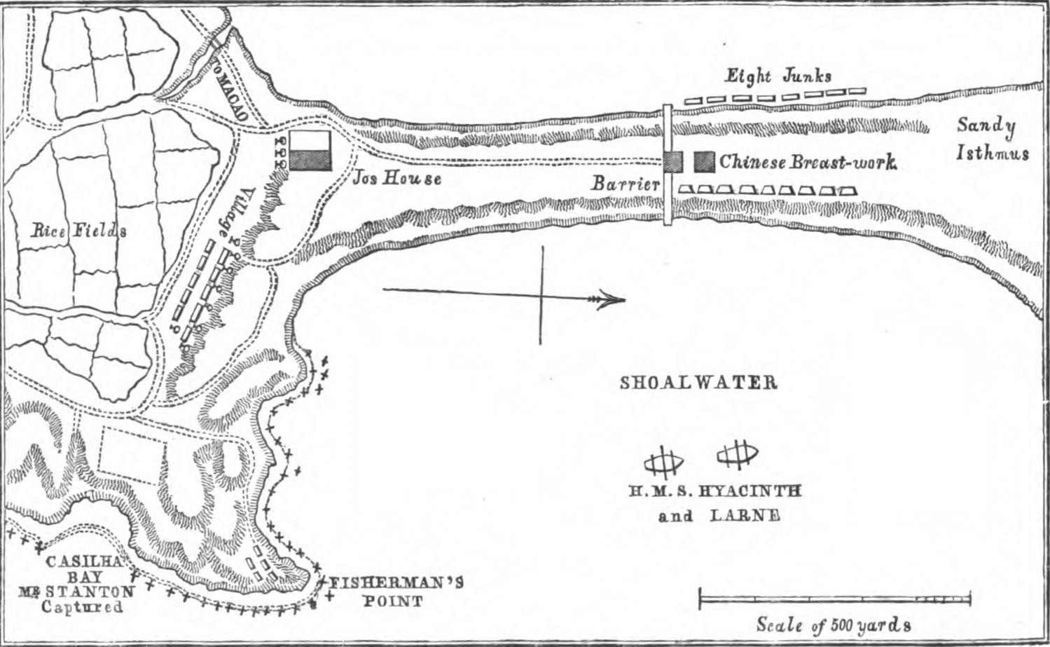 Plan of the Battle of the Barrier on 19 August 1840.